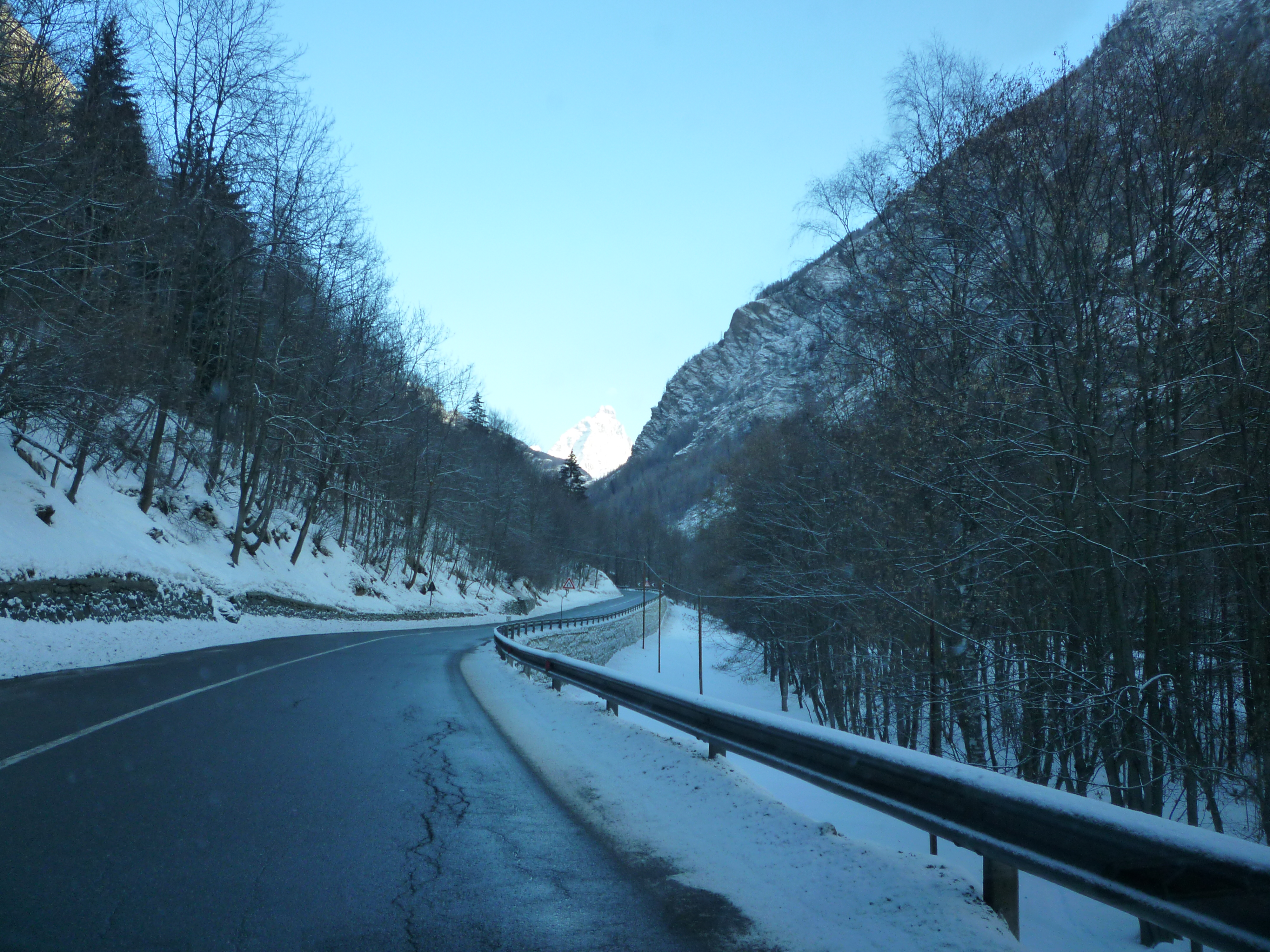 Matterhorn-Cervin seen from Buisson (Antey-Saint-André)